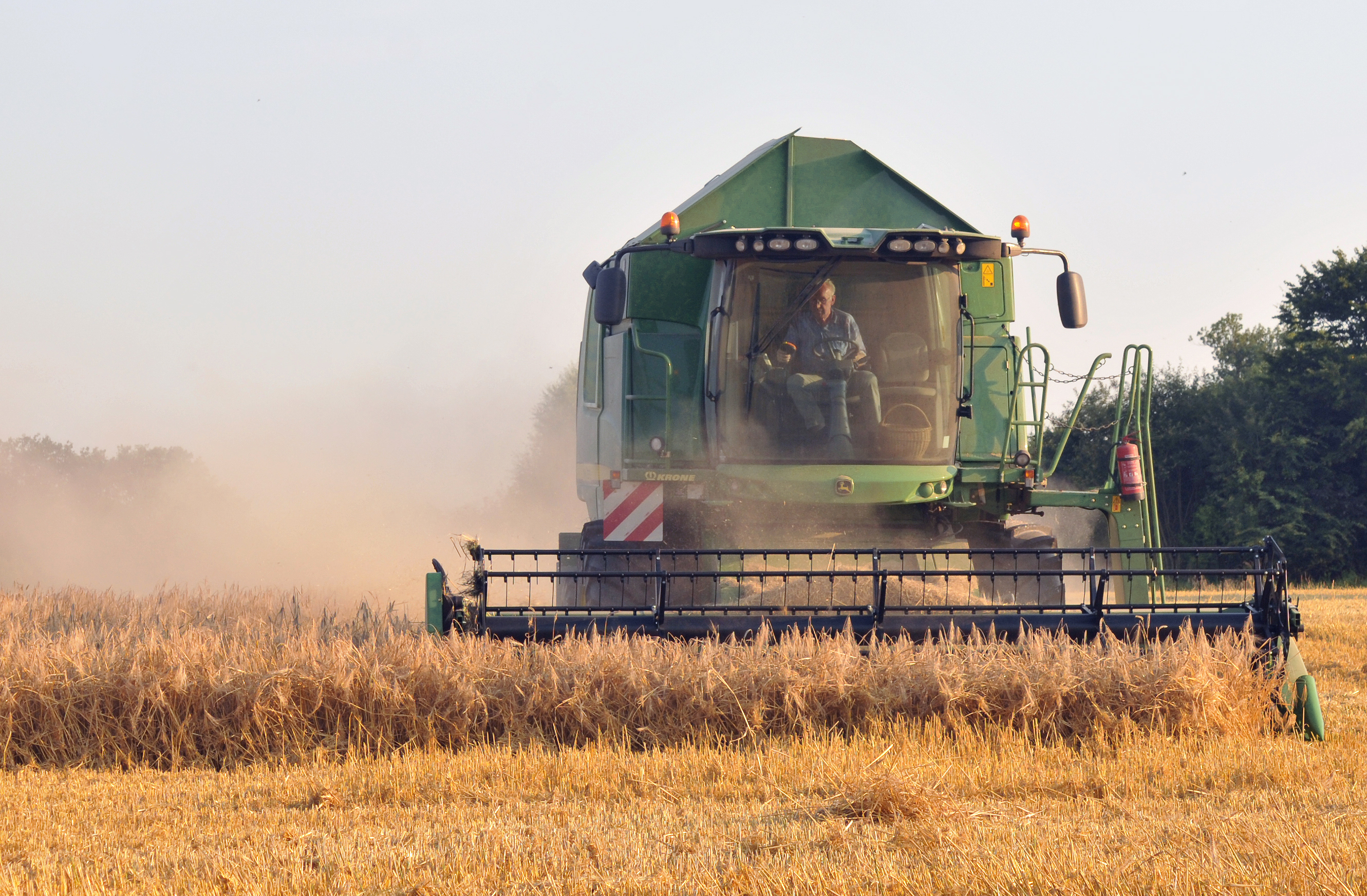 The combine John Deere W540 in the barley harvest near Herford in Germany. John Deere W540 threshing the barley. Then he crushes the chaff and blows it across the field.